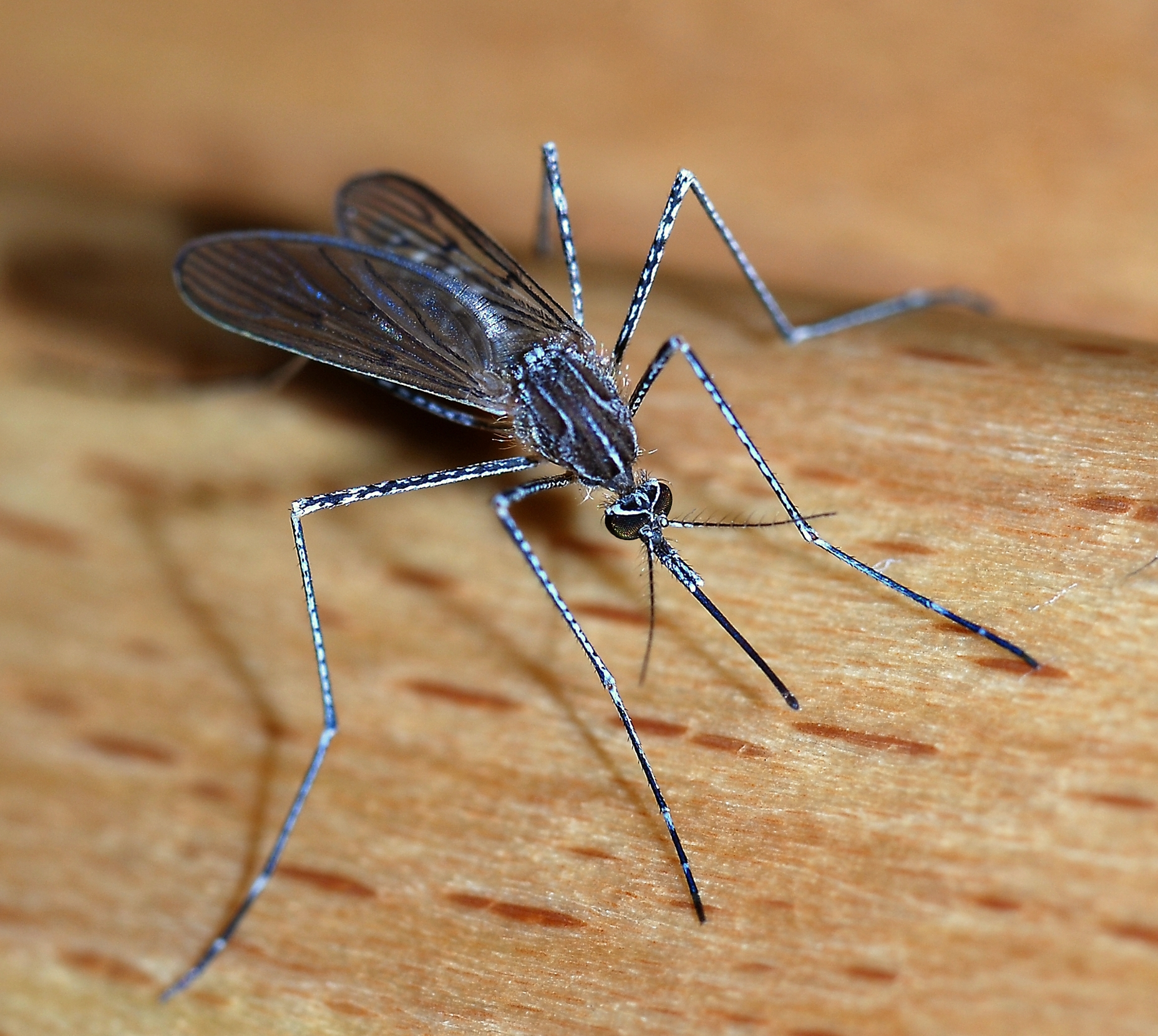 A female mosquito of the Culicidae family (Culiseta longiareolata). Size: about 10mm length Location: Lisbon region, Portugal